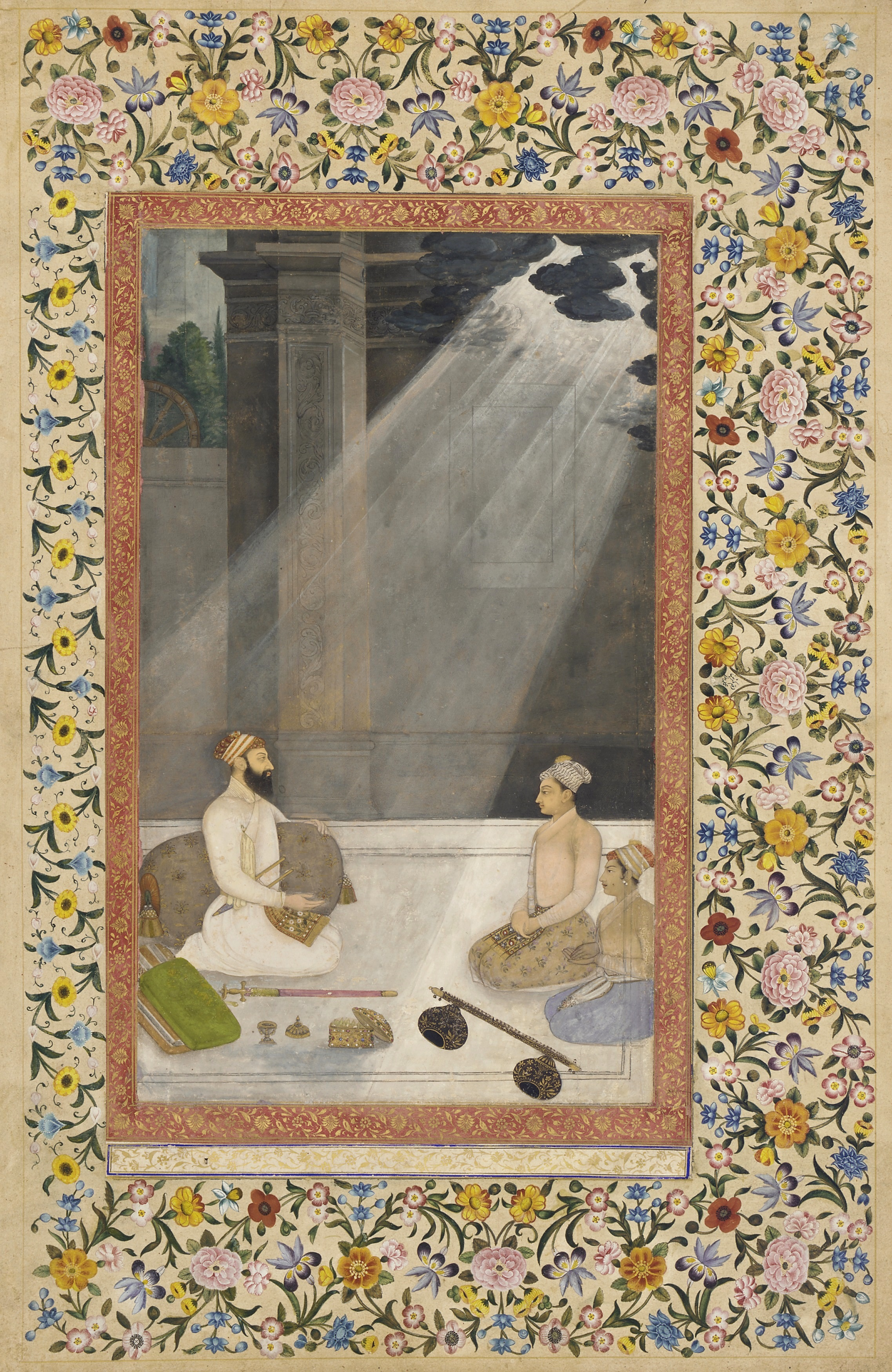 Hunhar. Emperor Aurangzeb in a Shaft of Light. The St. Petersburg Album ca. 1660 Freer Gallery of Art, Washington